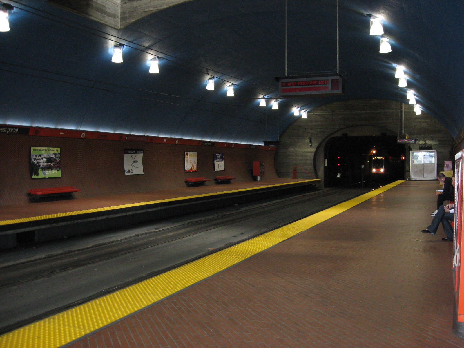 A Breda Car emerging from the Twin Peaks Tunnel into West Portal Station. It does look like it was taken from the 1970s to the 1980s, but it was taken in 2007.